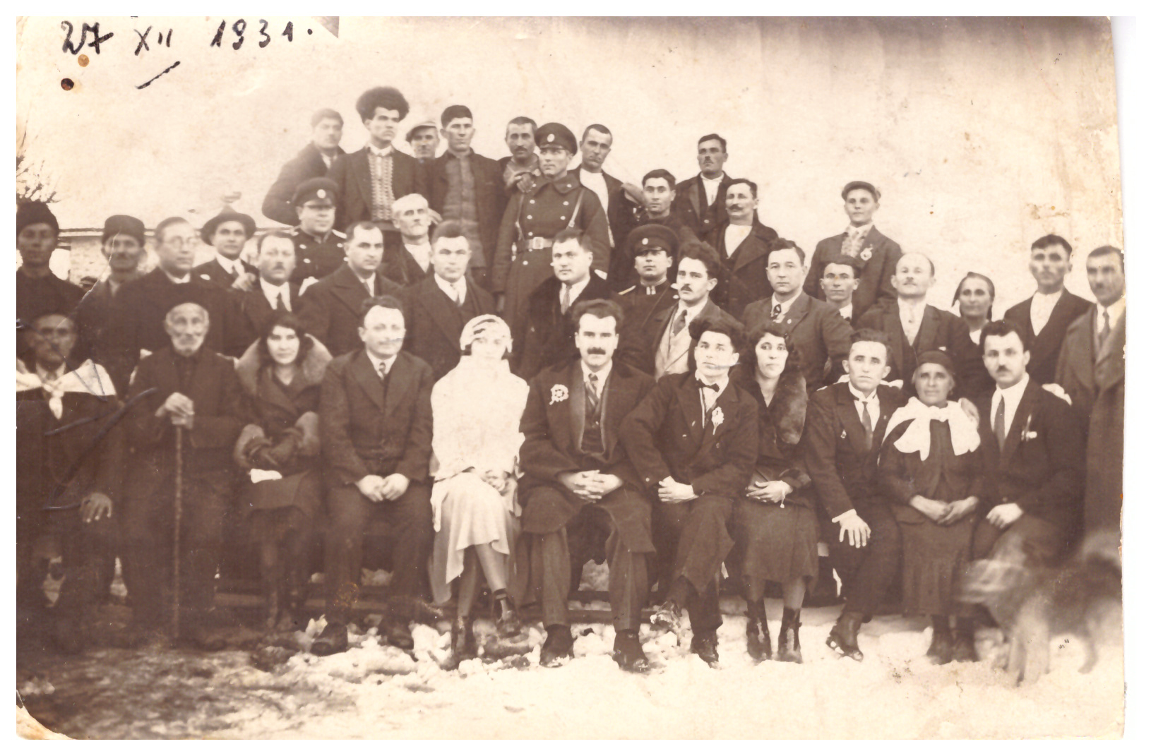 Wedding-Yordan Vlahov - 1931